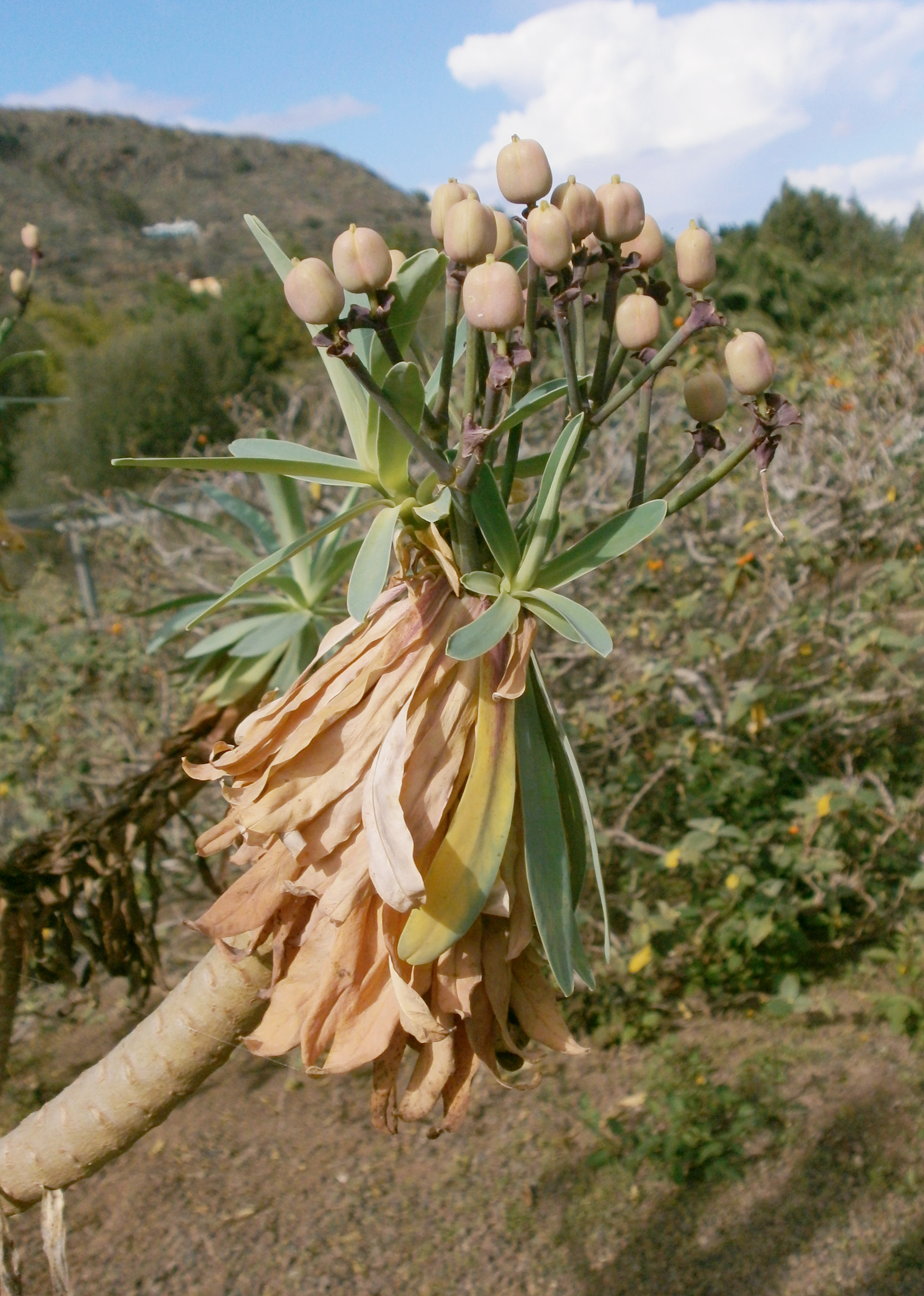 Euphorbia bravoana Sventenius; Fruits; Jardín Botánico Canario Viera y Clavijo, Gran Canaria, Canary Islands, Spain.